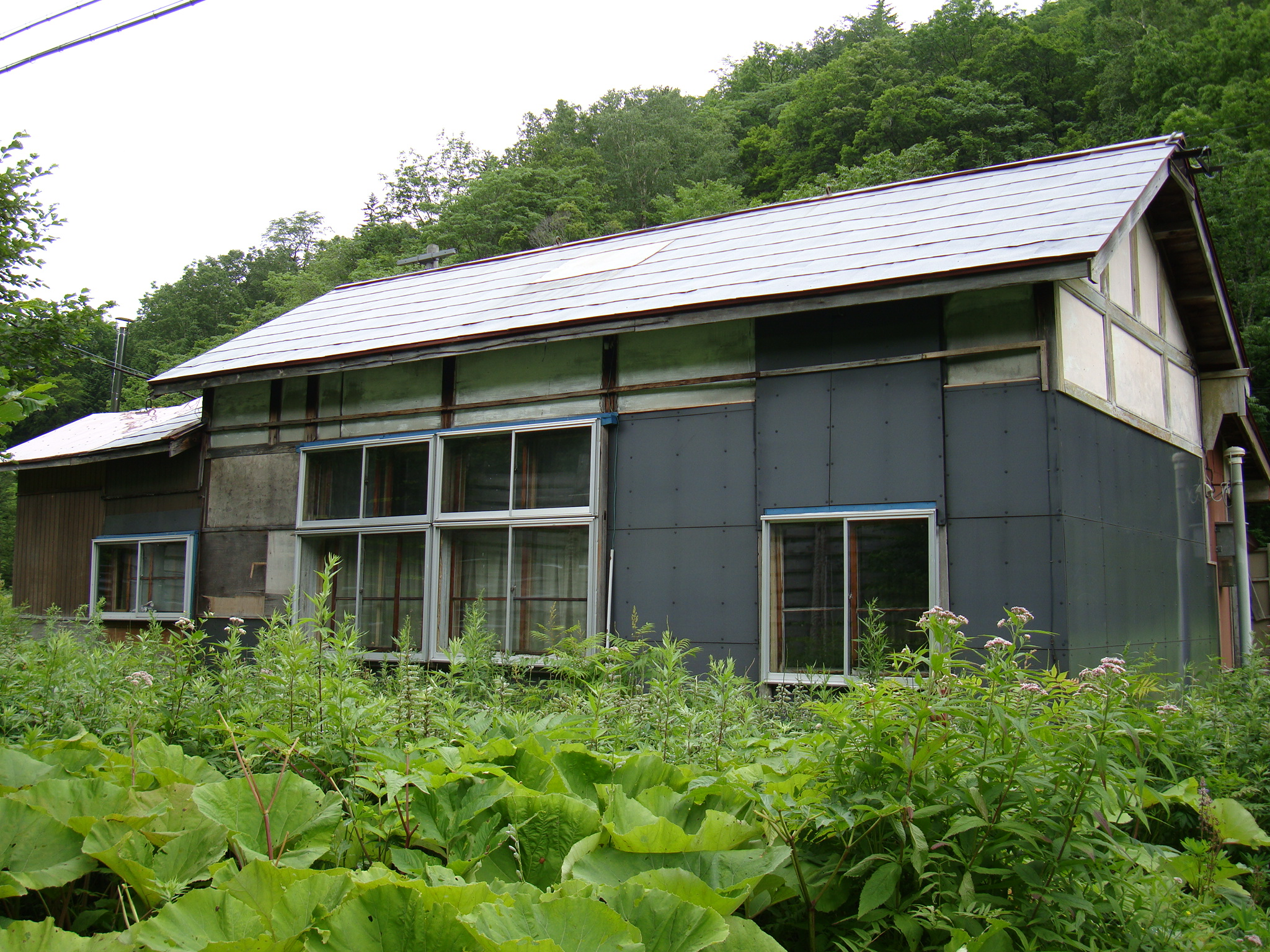 Kamikoshi Signal Base